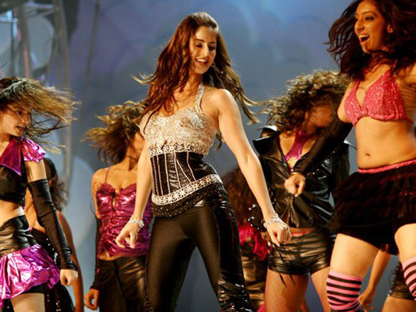 Katrina Kaif performing at the GIFA Awards in 2006